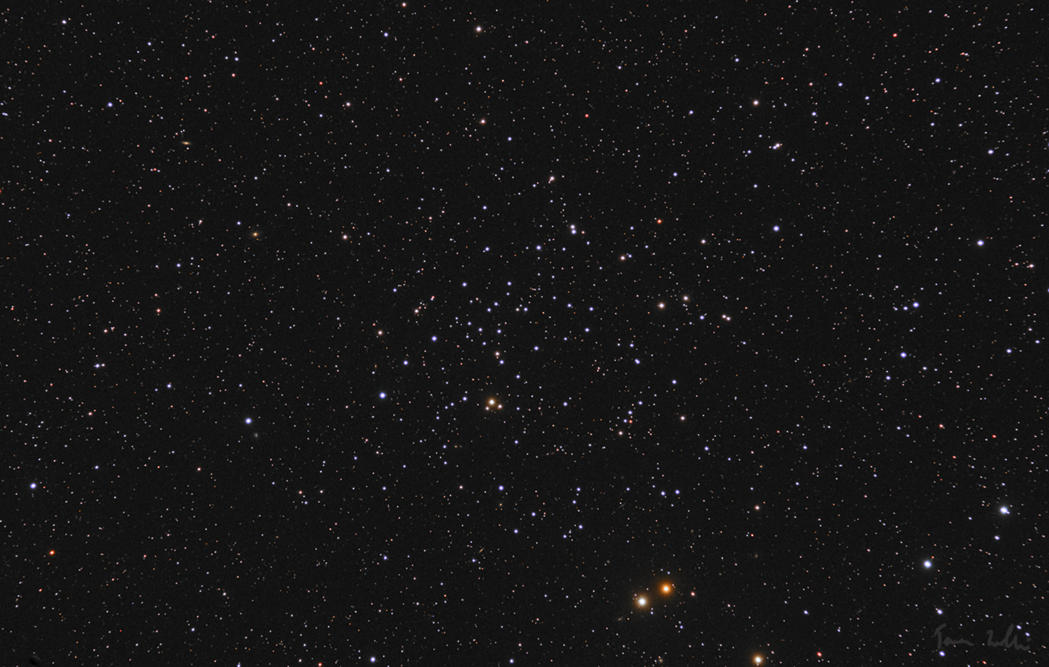 Picture saved with settings embedded.